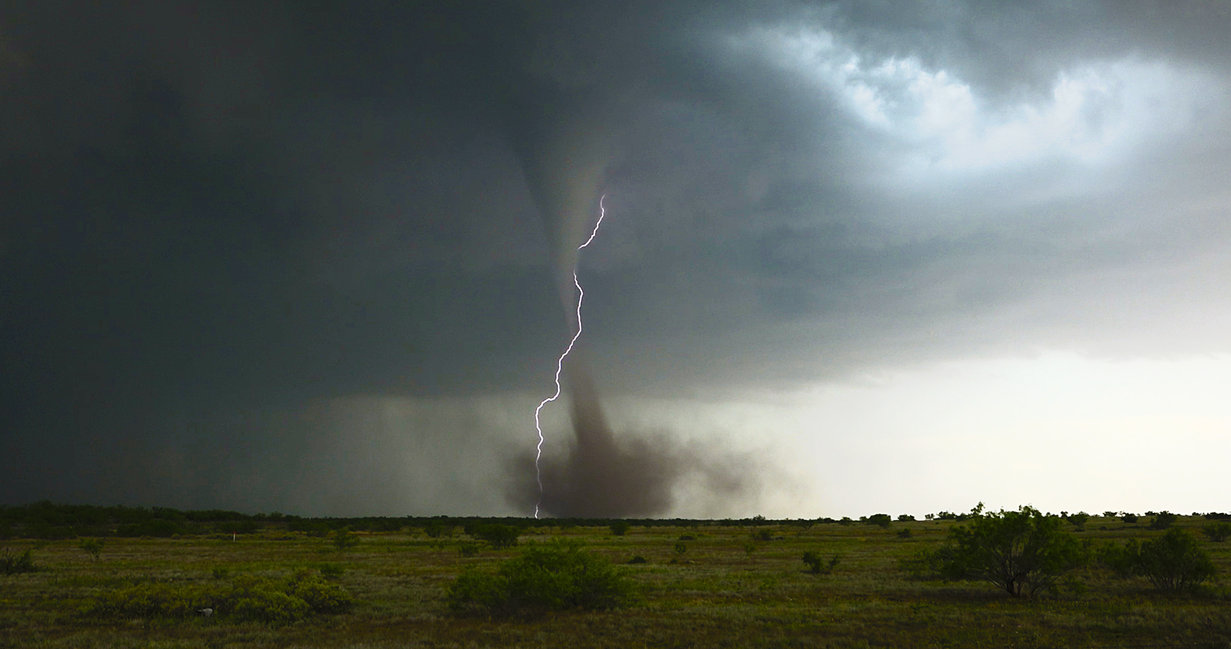 Lightning snakes around an anticyclonic tornado in Big Spring, Texas on May 22, 2016. Captured by storm chaser Aaron Jayjack